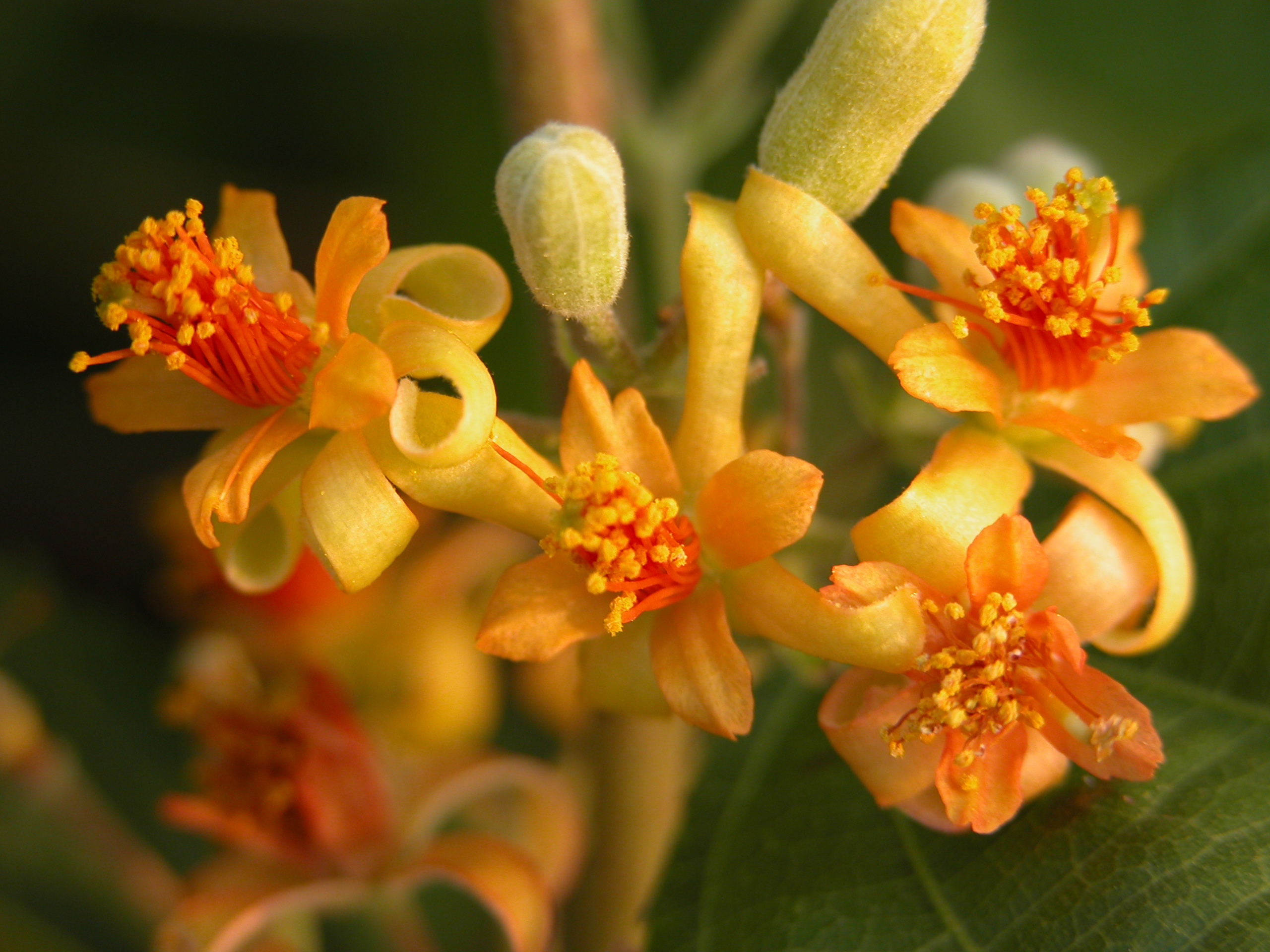 The Phalsa tree (Grewia asiatica / Tiliaceae) is located in the Ghosh Grove, Rockledge, Florida.